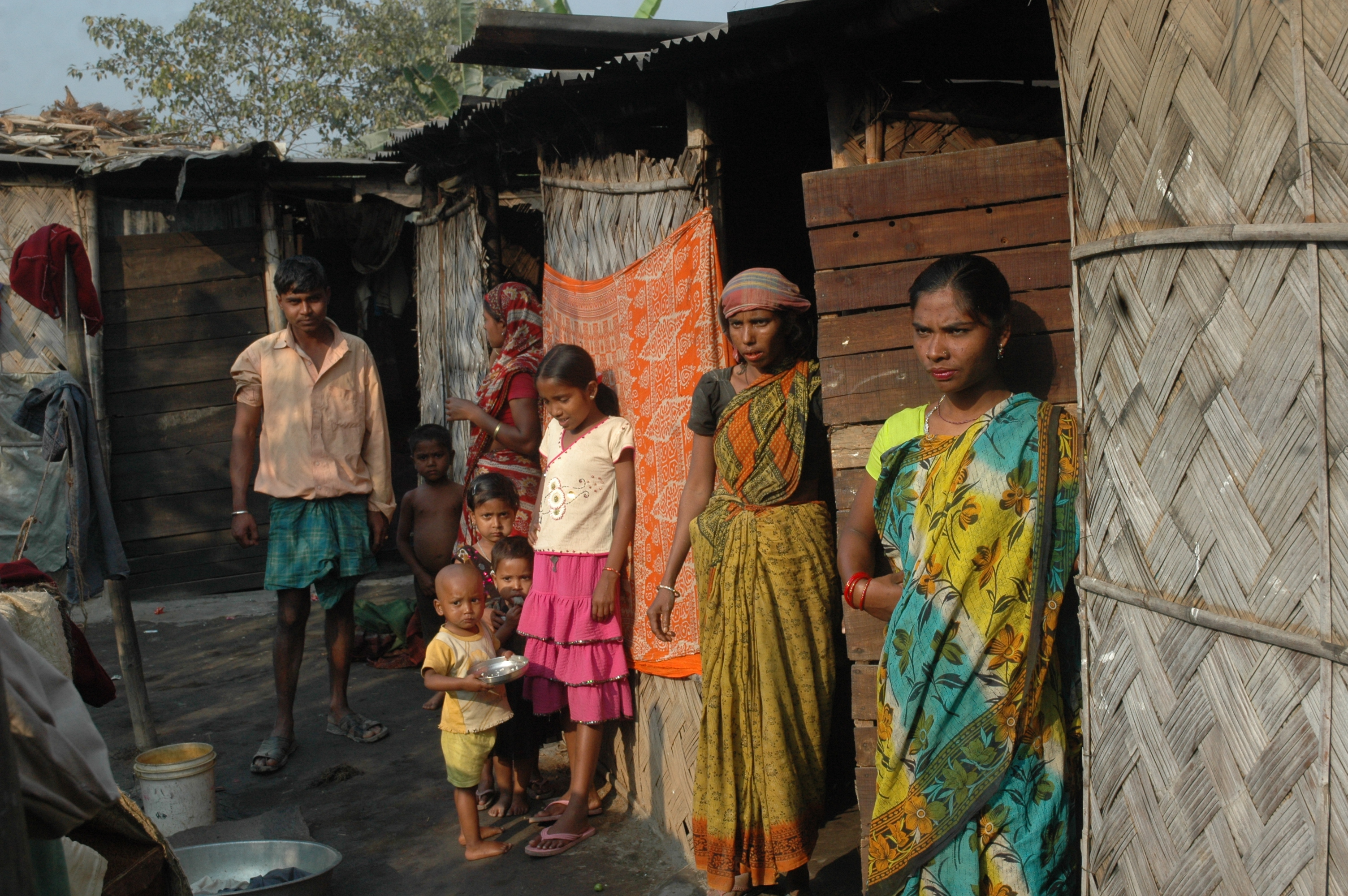 People of slum areas in Assam.